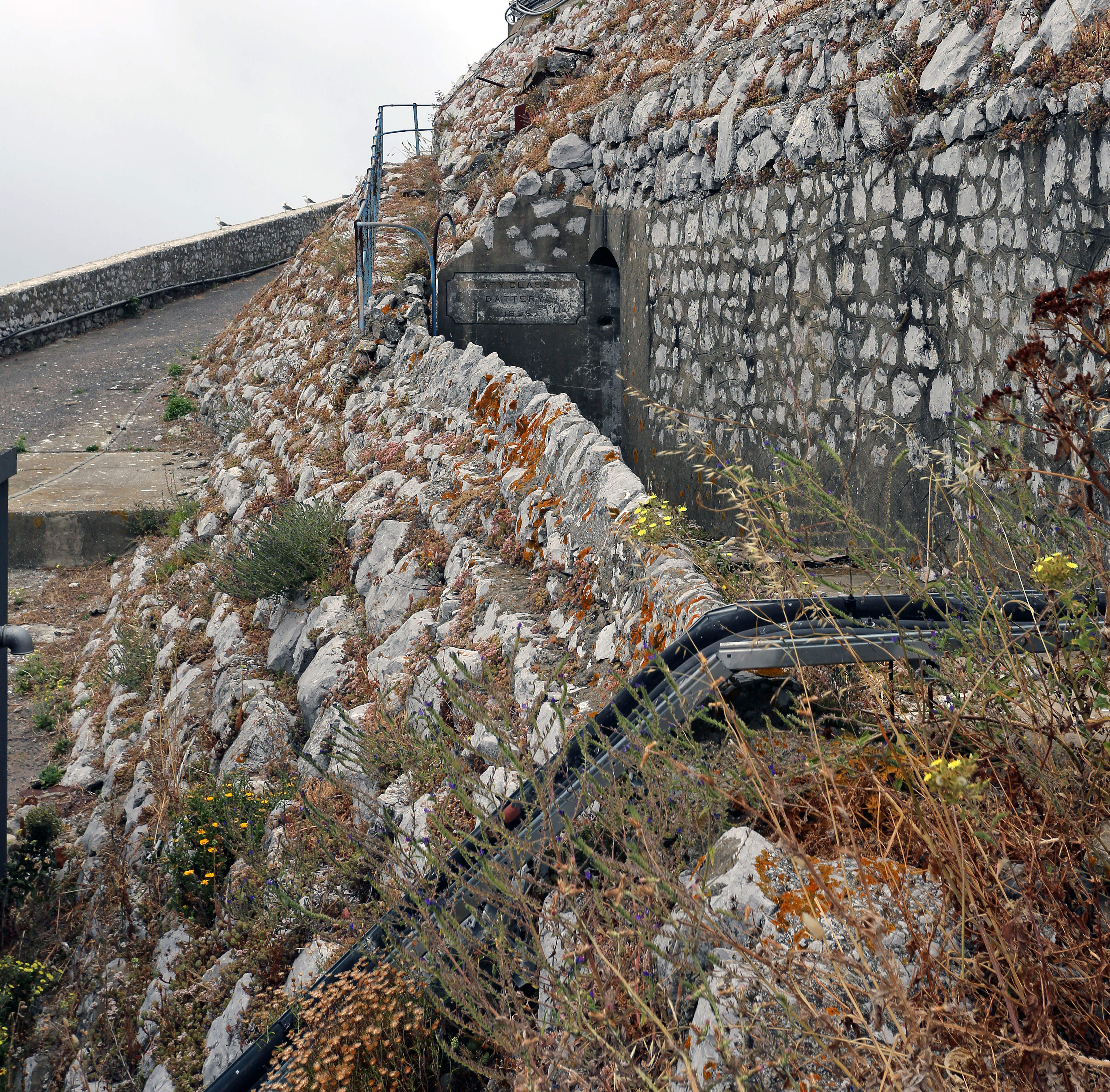 Spy Glass Battery, Upper Rock, Gibraltar Photo taken with kind permission of Fortess HQ, Gibraltar. Spy Glass Battery is on Ministry of Defence property near Lord Airey's and O'Hara's Batteries. In the early 1900s, Spy Glass Battery had six 10-inch rifled muzzle loading guns were present and by WW II an anti-aircraft Bofors gun was installed below the Battery.